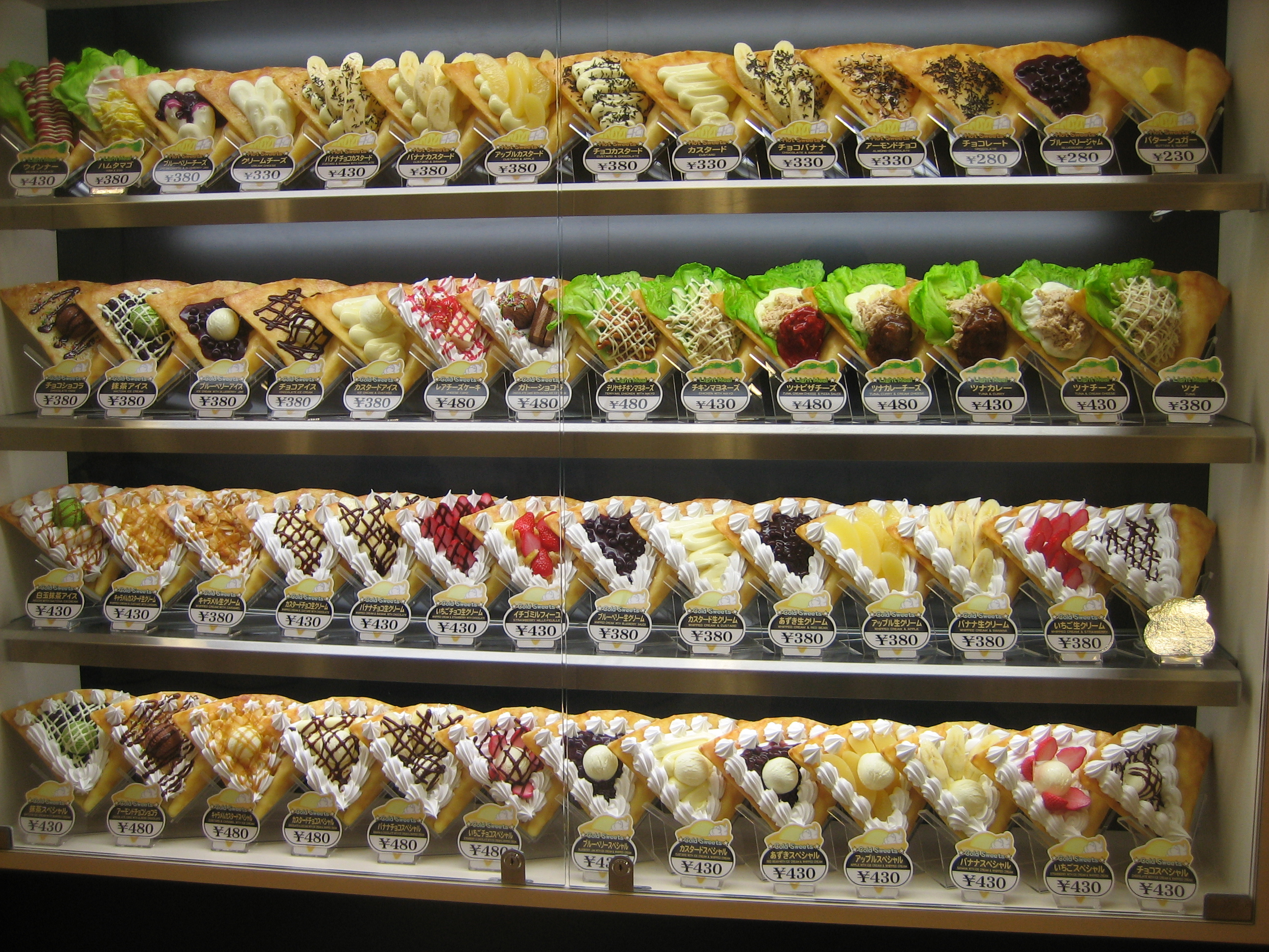 Crêpeｓ displayed by Crêpe shop in Japan.